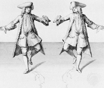 A step from the chaconne dance.